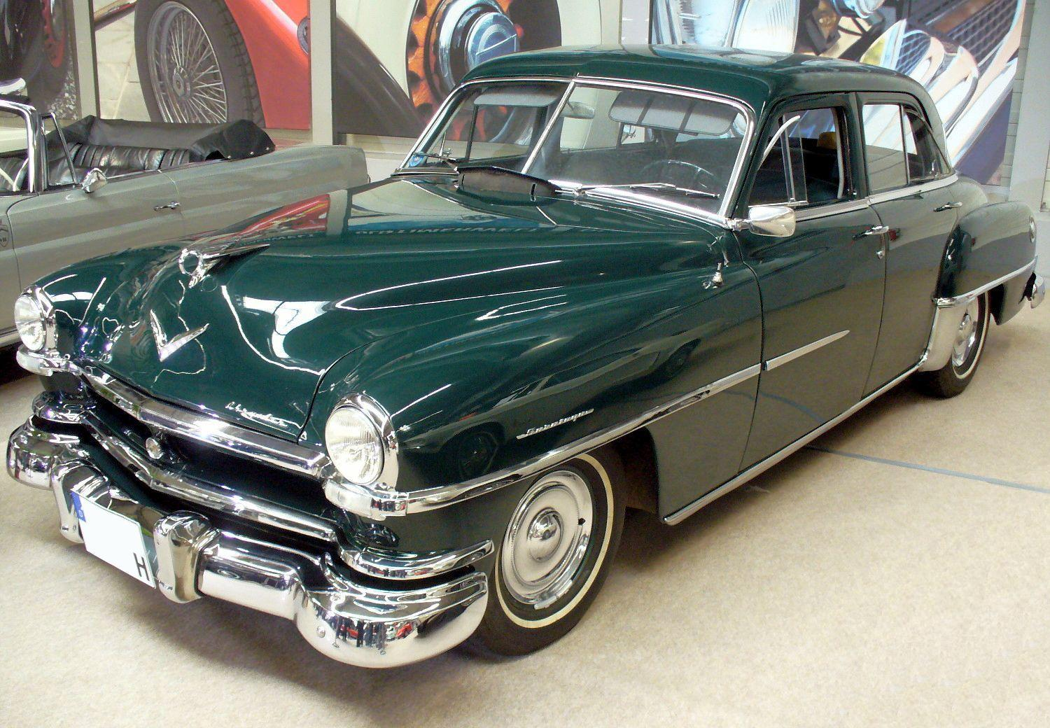 1951 or 1952 Chrysler Saratoga (see fender trim) C55 series at the Automobil- und Tuningmesse Erfurt, 2008